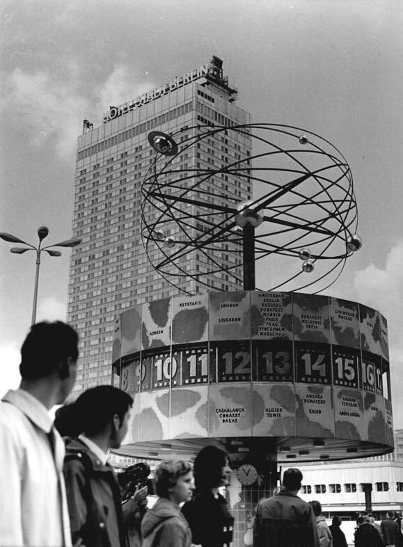 Alexanderplatz square in East Berlin in 1969, Weltzeltuhr, "World-clock" can be seen in the foreground